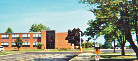 Photograph of Lakeview Intermediate School